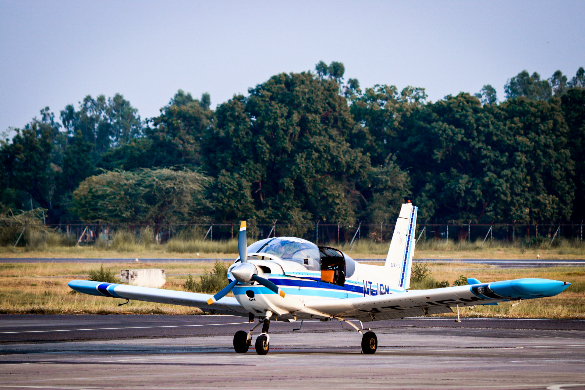 One of the Zlin 242L that IGRUA operates, parked on the apron.